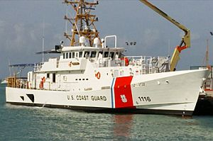 Delivering the 16th Sentinel class cutter, USCGC Winslow Griesser (WPC-1116) Original caption: “The Coast Guard accepted delivery of the service’s newest fast response cutter, Winslow Griesser, in Key West, Fla., Dec. 23, 2015. U.S. Coast Guard photo by Ensign Landon Elliott.”